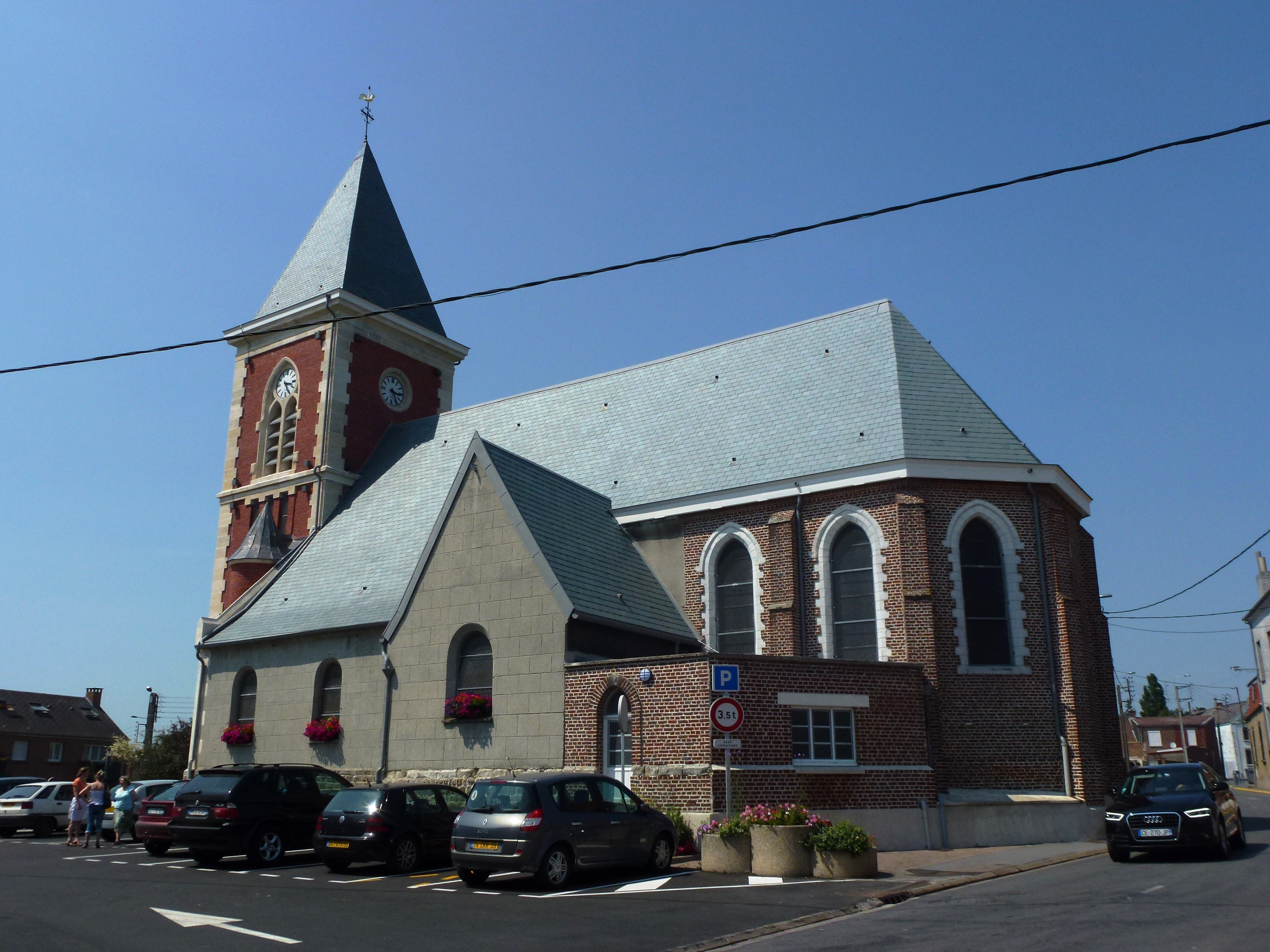 Prouvy (France - Nord department) — Église Saint Pierre (Saint Peter's Church)